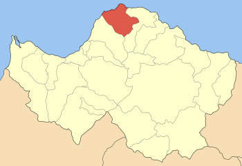 Locator map of Rio municipality (Δήμος Ρίου) in Achaia perfecture (Νομός Αχαΐας) in Greece.